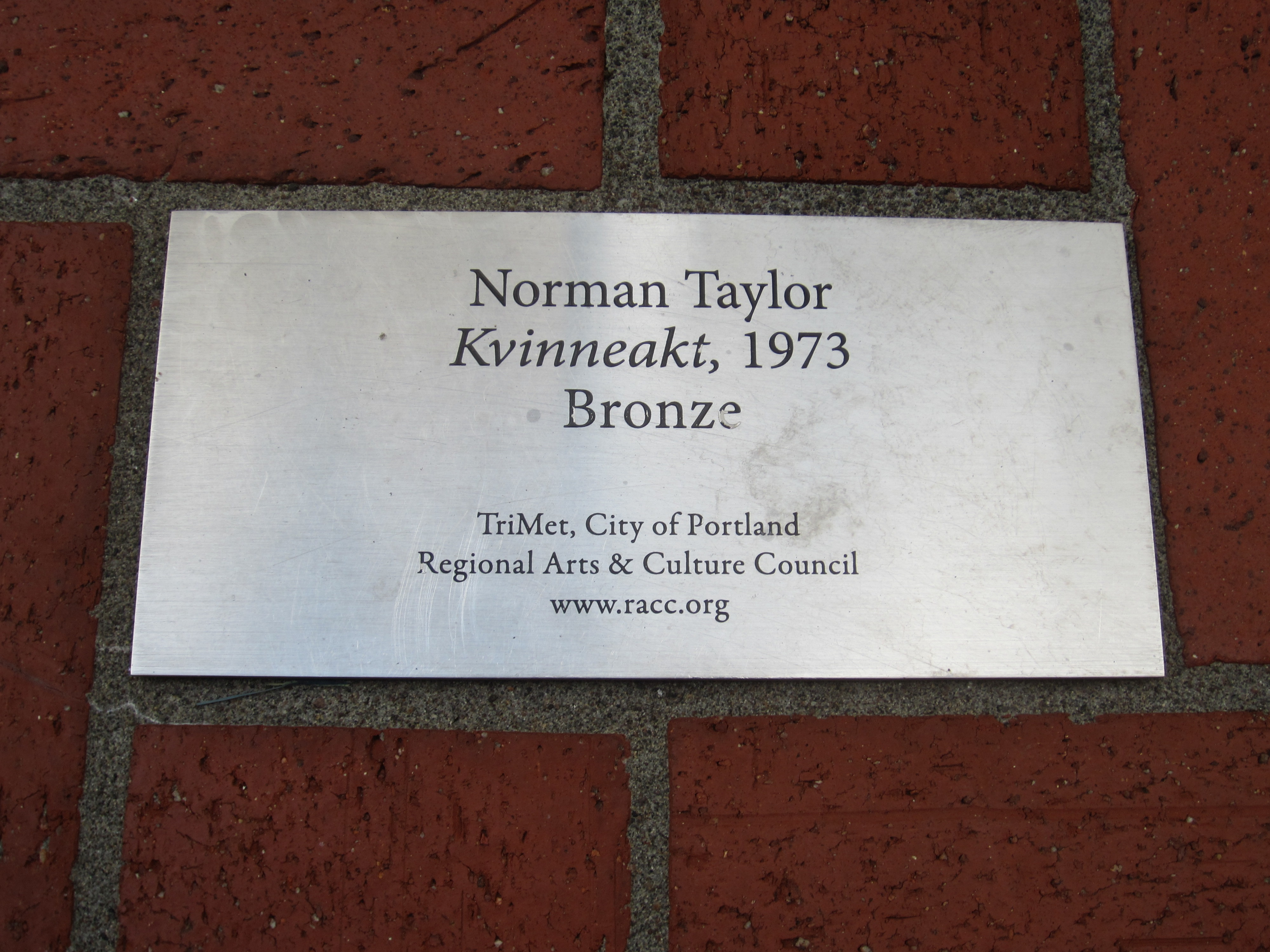 Plaque for Norman Taylor's bronze sculpture, Kvinneakt, located in Portland, Oregon